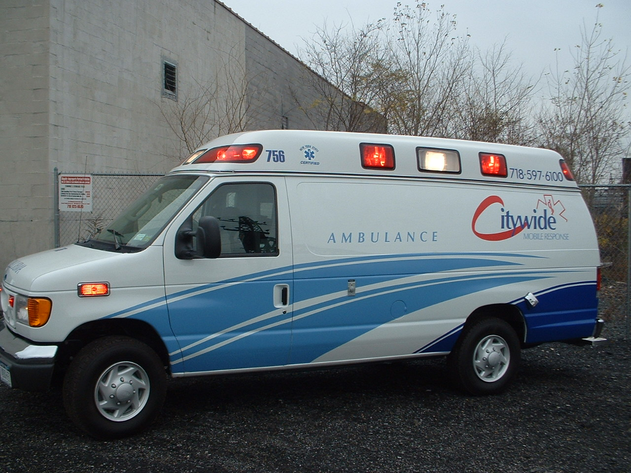 Citywide Mobile Response is a Private Ambulance Co in NYC